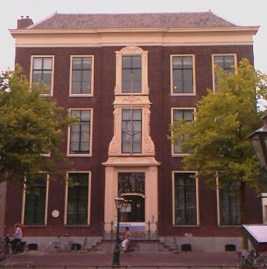 The Sieboldhuis on 19 Rapenburg in Leiden, The Netherlands. Building in which student society "Minerva" was situated from 1837 until 1844